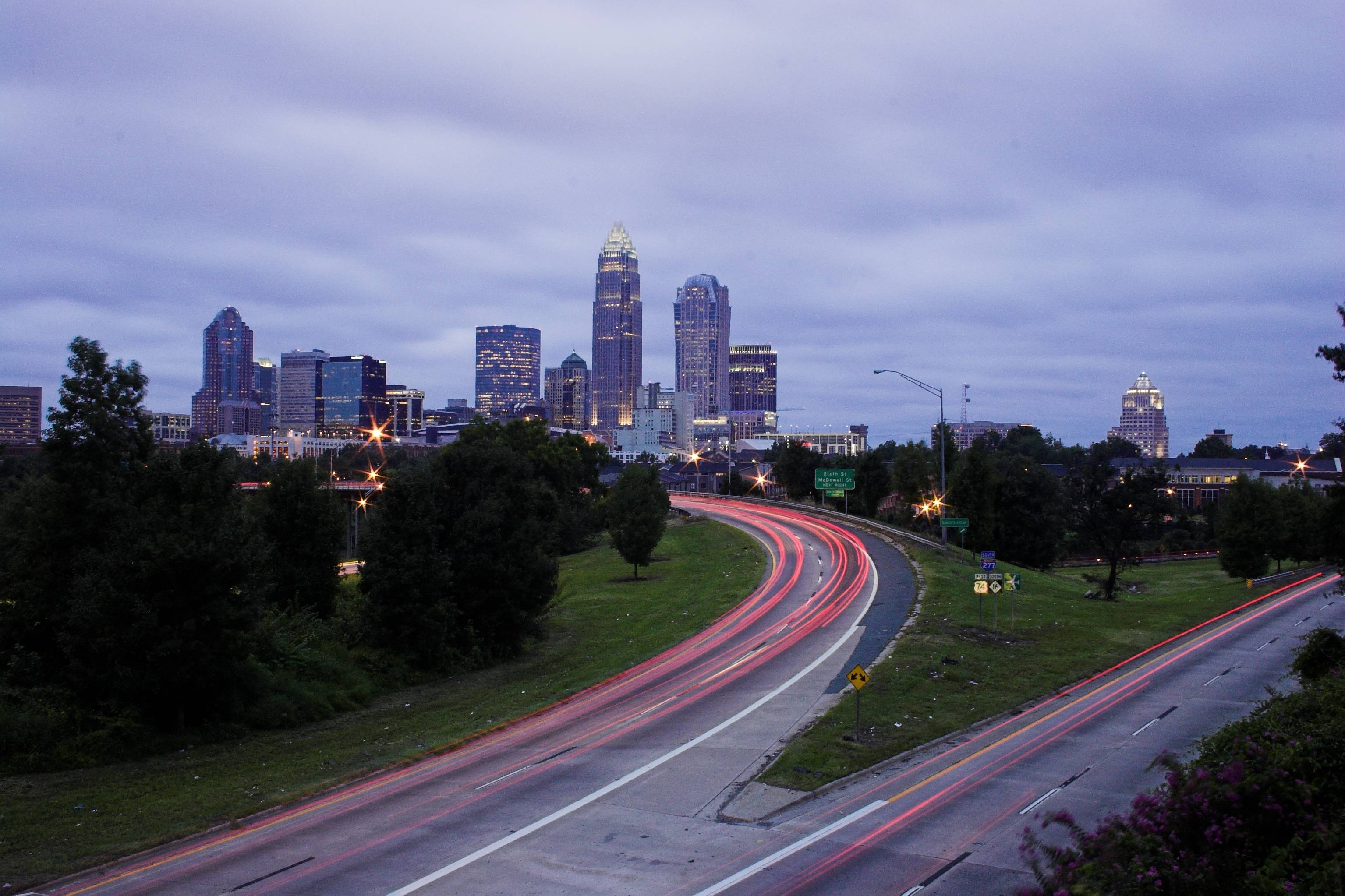 The skyline of Charlotte, North Carolina